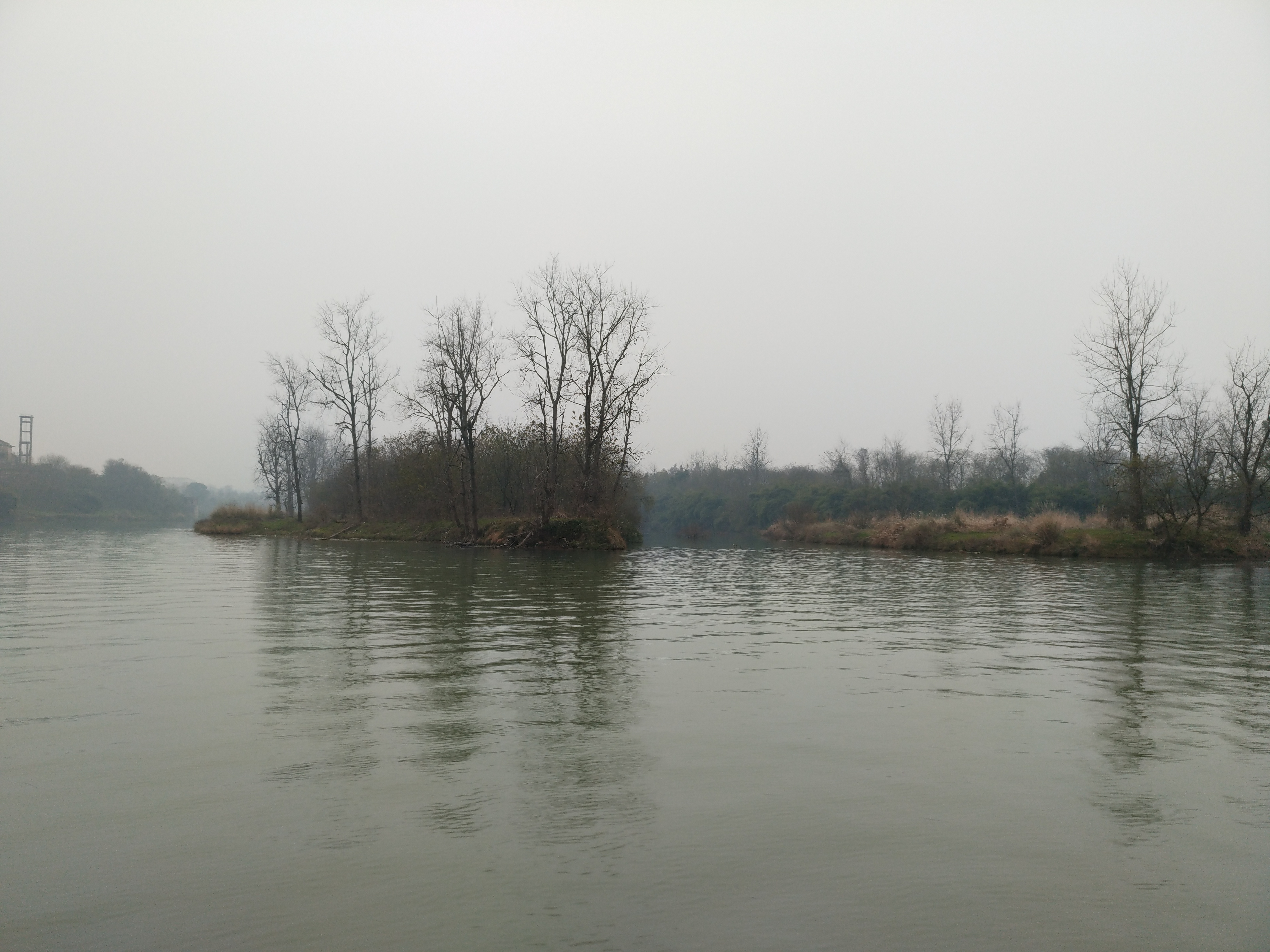 Xiao River and Xiang River at the junction of the Ping Isle (Pingzhou), Yongzhou, Hunan, China.